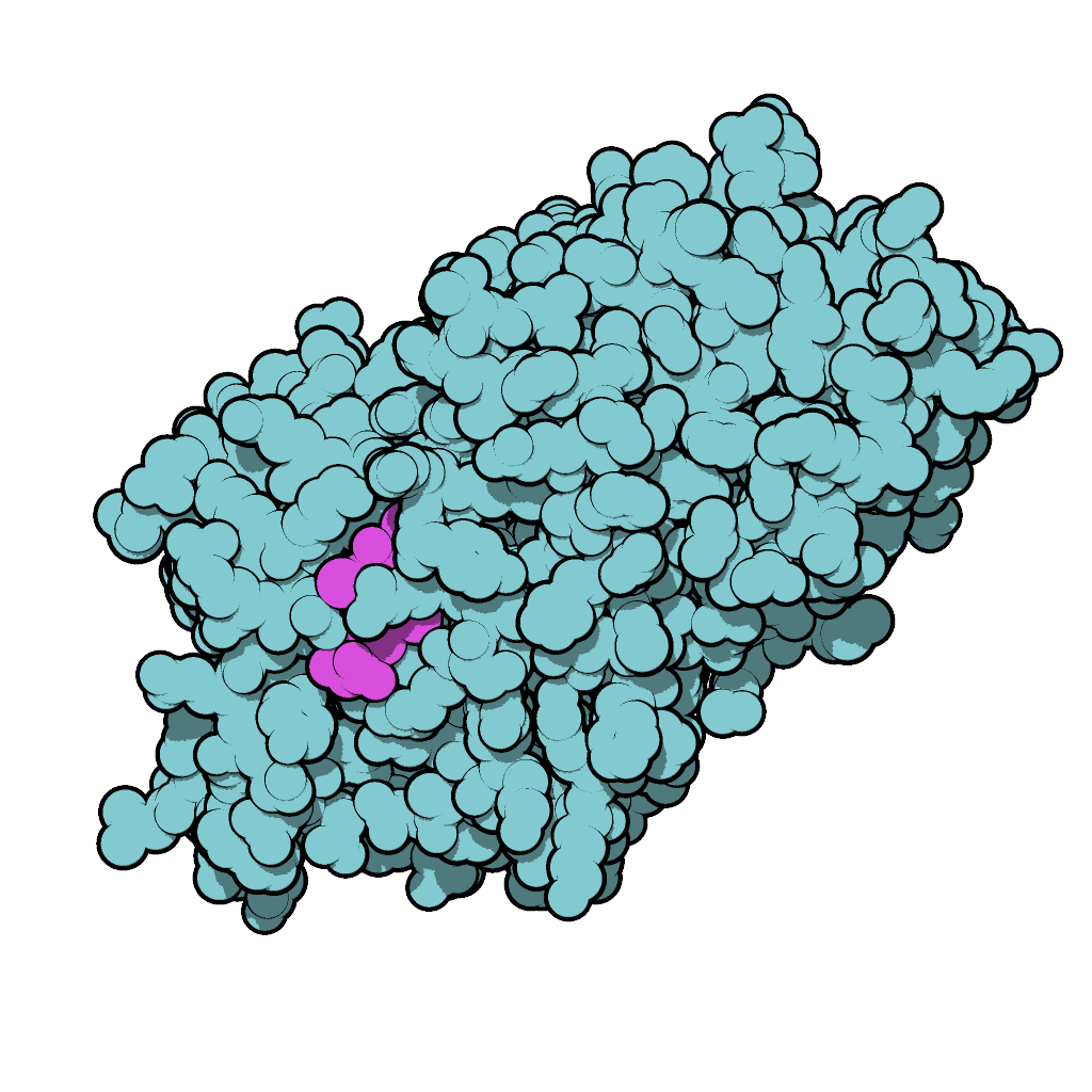 Space-filling model of human thyroxine-binding globulin with thyroxine (magenta) and glycerol (not visible) bound. Style made to resemble the Protein Data Bank's "Molecule of the Month" series, illustrated by Dr. David S. Goodsell of the Scripps Research Institute. Created using QuteMol ( Optimized with OptiPNG. Legend Thyroxine-binding globulin Thyroxine